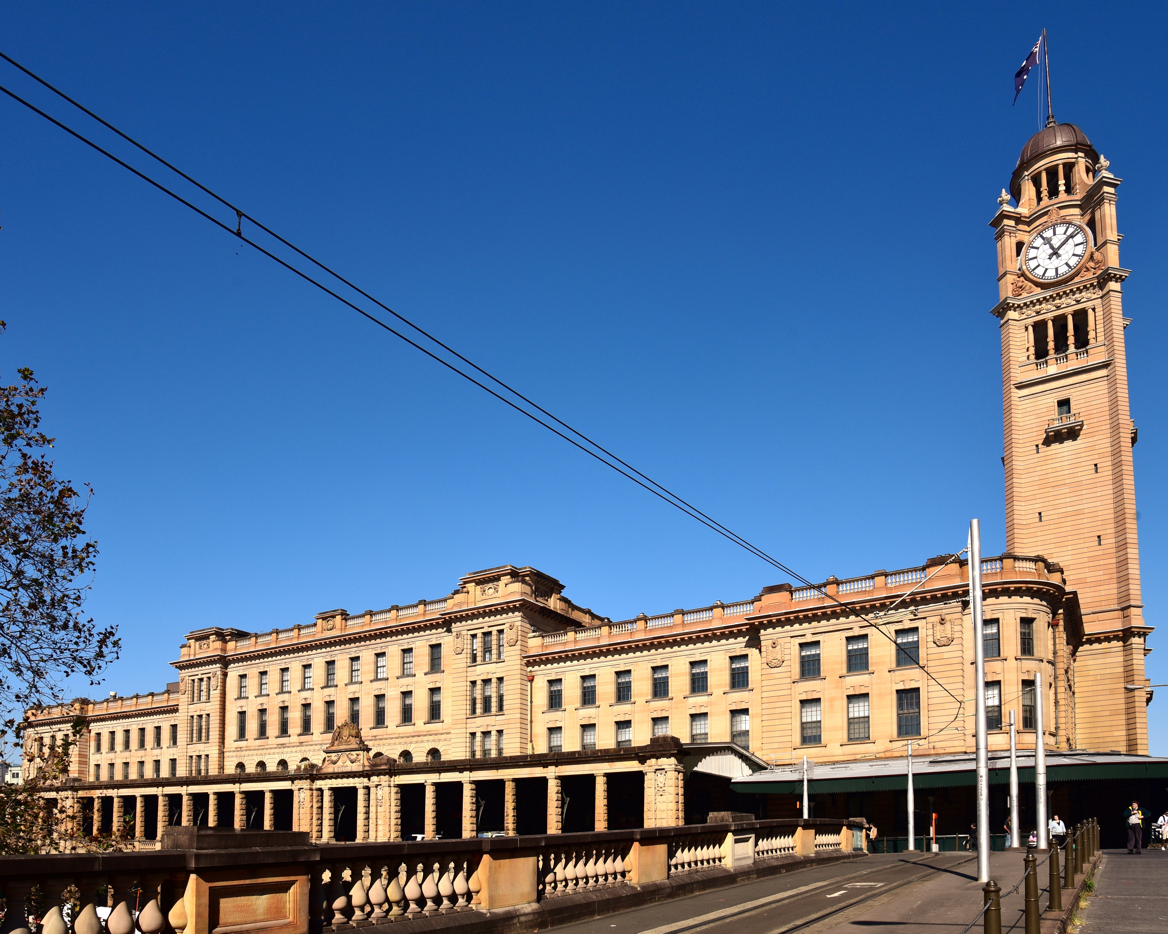 View of the Central railway station, Sydney